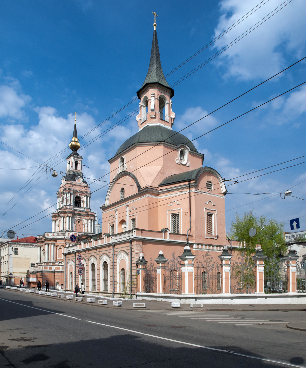 Church of Saint Peter and Paul in Novaya Basmannaya Sloboda